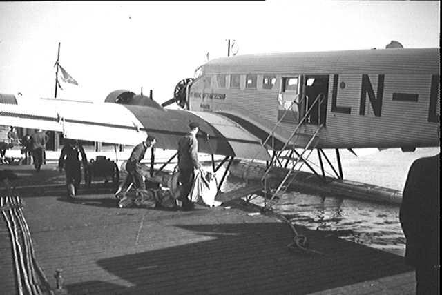 A Det Norske Luftfartsselskap Junker Ju 52 seaplane docked at Gressholmen Airport in Oslo, Norway.